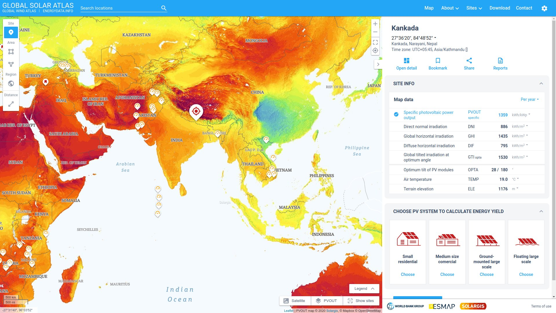 Global Solar Atlas interactive map interface screenshot (GSA v2.2, status June 2020). In this case, photovoltaic (PV) power potential map is shown. Numeric values for any location is shown in the right panel on a map-click action.